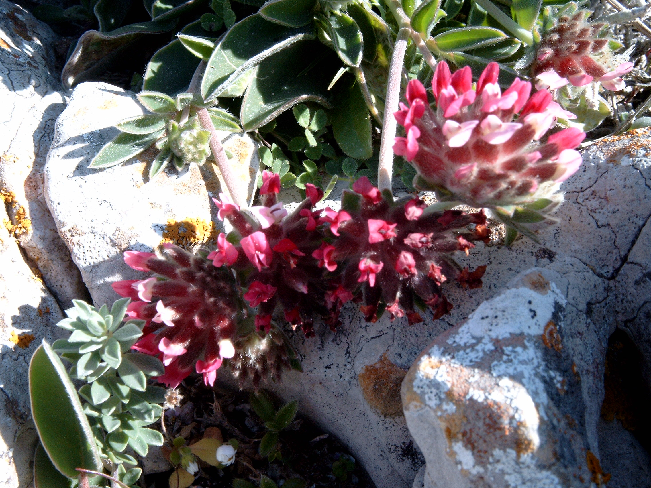 Name Anthyllis vulneraria subsp. iberica Family Fabaceae